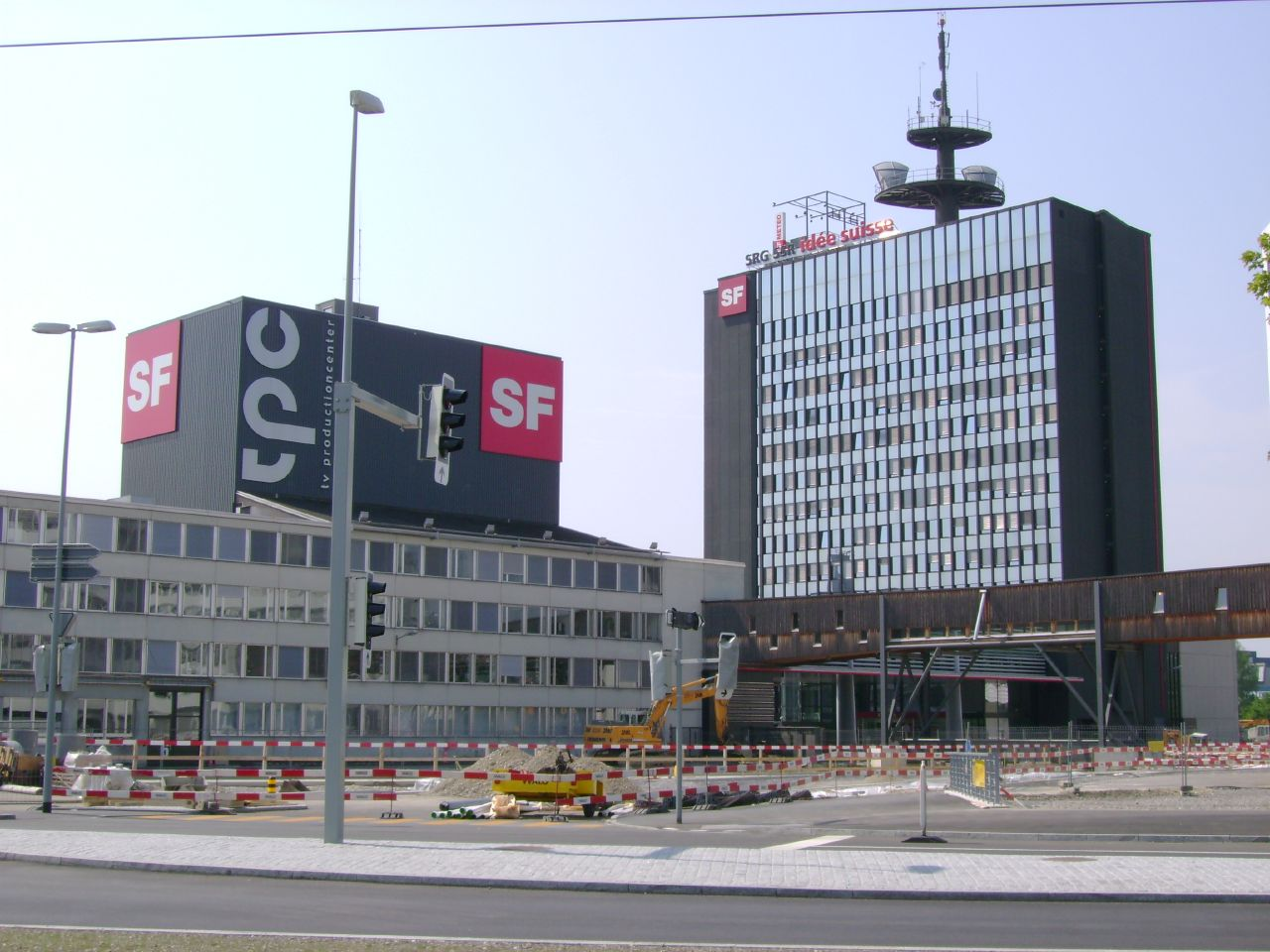 Build complex of SF (Swiss Television)